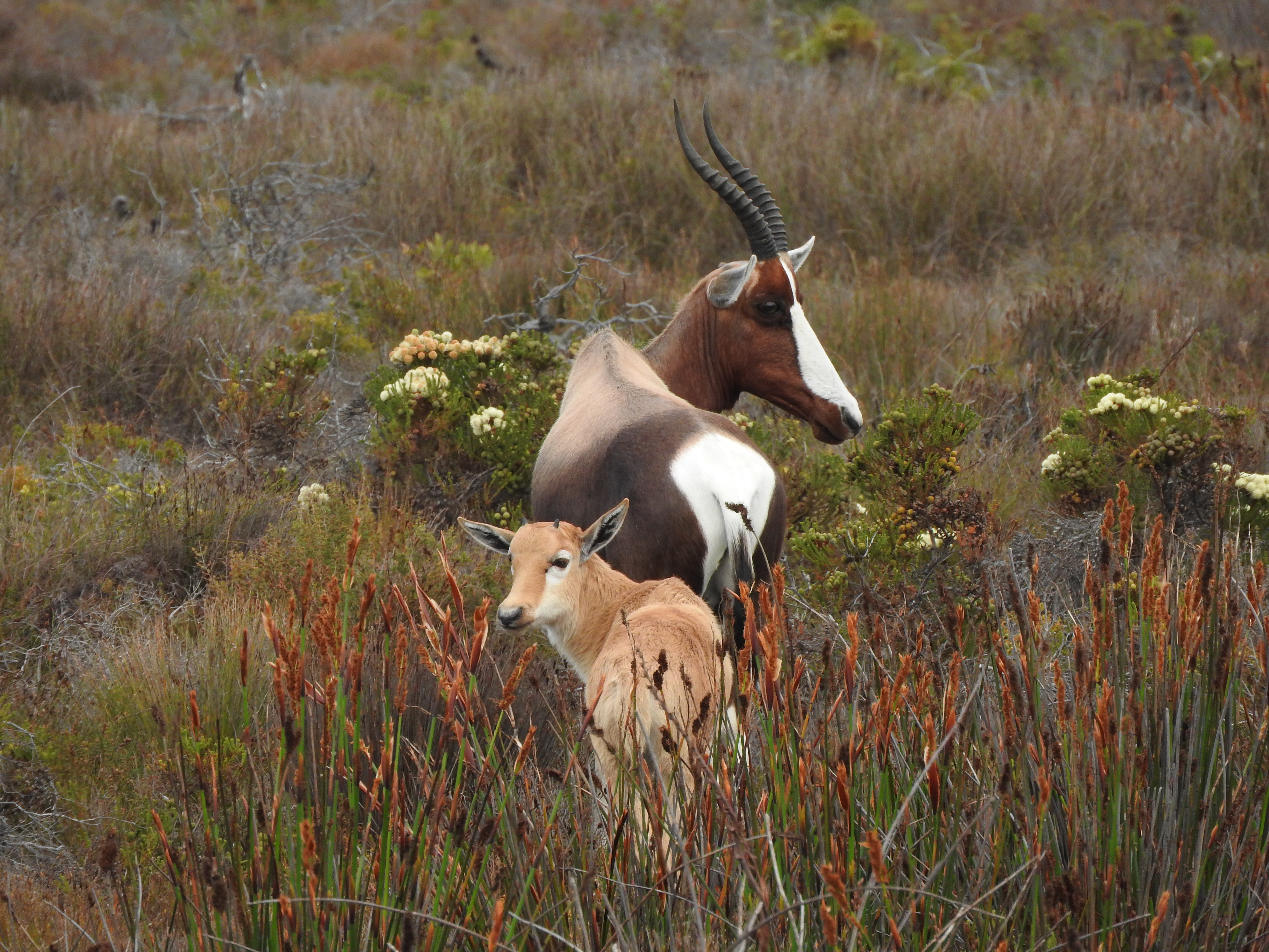 Bontebok with calf in the fynbos, in Table Mountain National Park, South Africa.